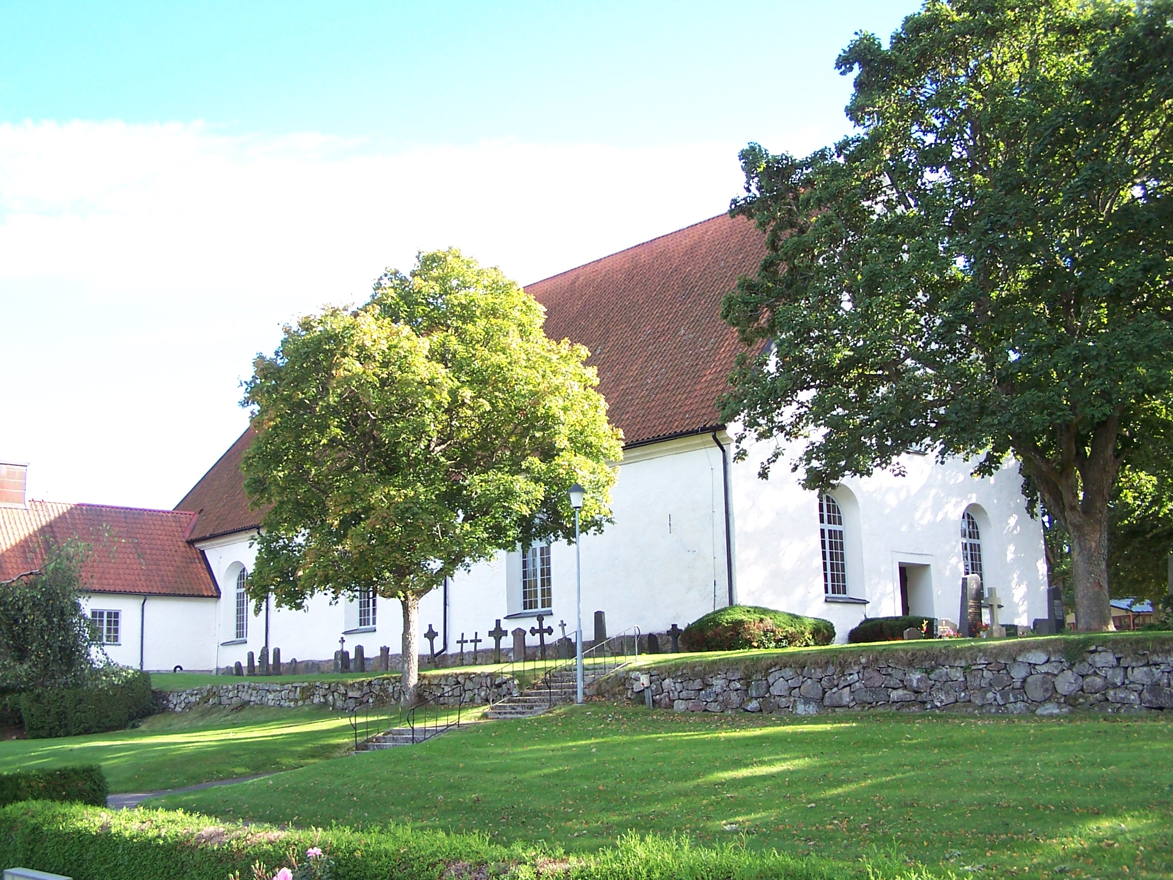 Torsås church, Sweden - Exterior from southwest